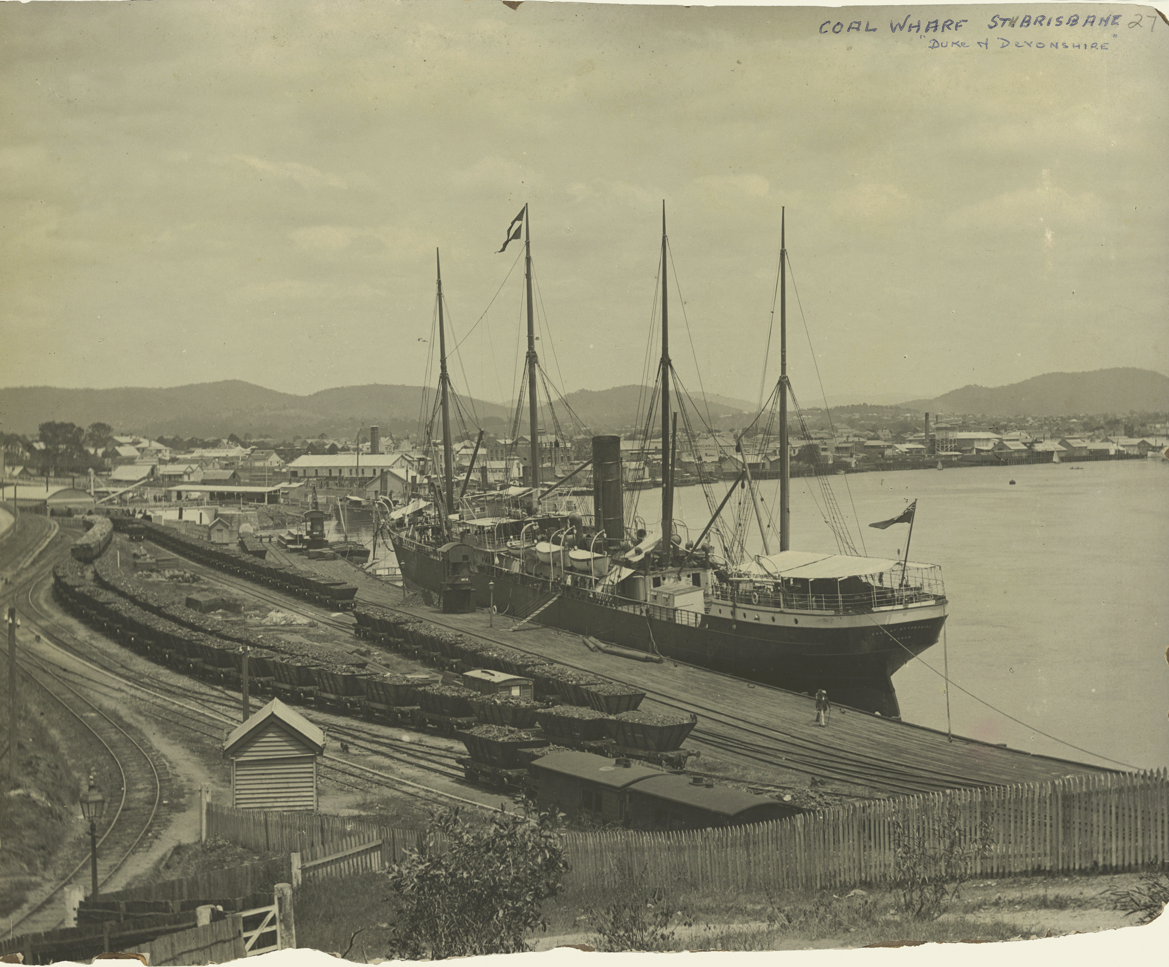 Four masted ship Duke of Devonshire, tied up at the coal wharves at South Brisbane, ca. 1898